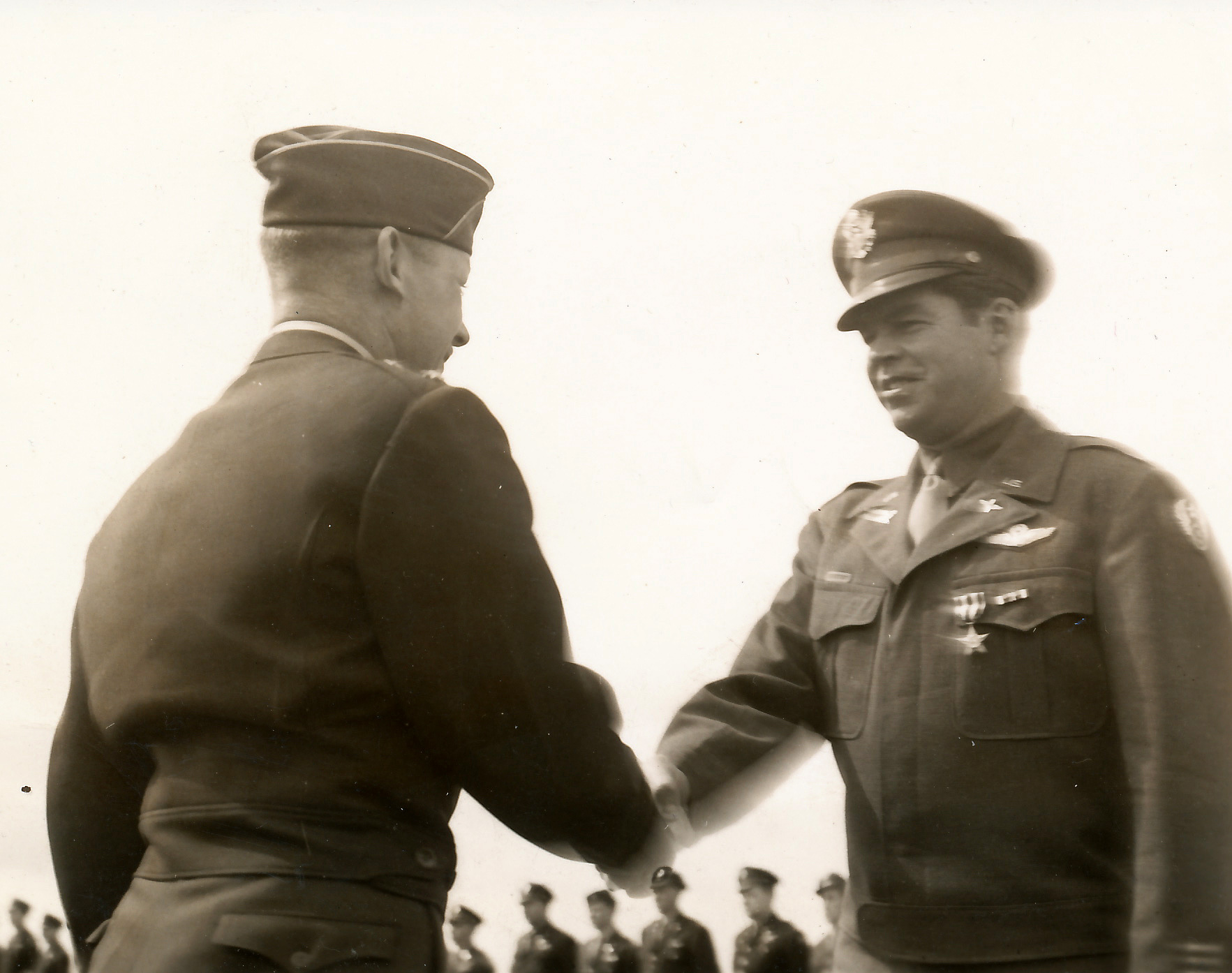 Col. Gerald E. Williams, commanding officer of the 391st A-26 Invader group awarded Silver Star medal and second Oak Leaf Cluster to his Distinguished Flying Cross. Presentation by Maj. Samuel E. Anderson, commanding general of the Ninth Bombardment Division. France, May 1945.